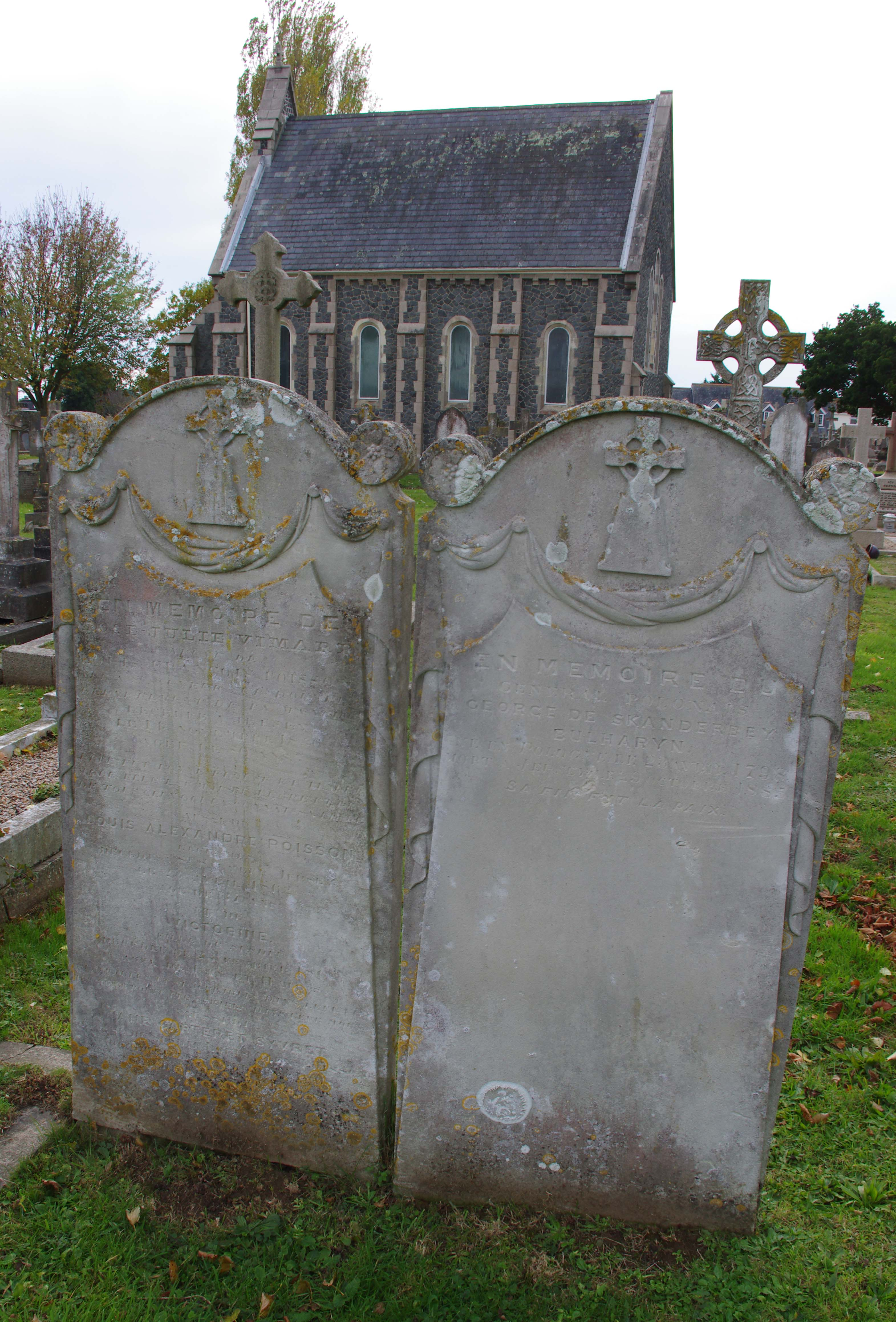 George Bulharyn 1799-1885